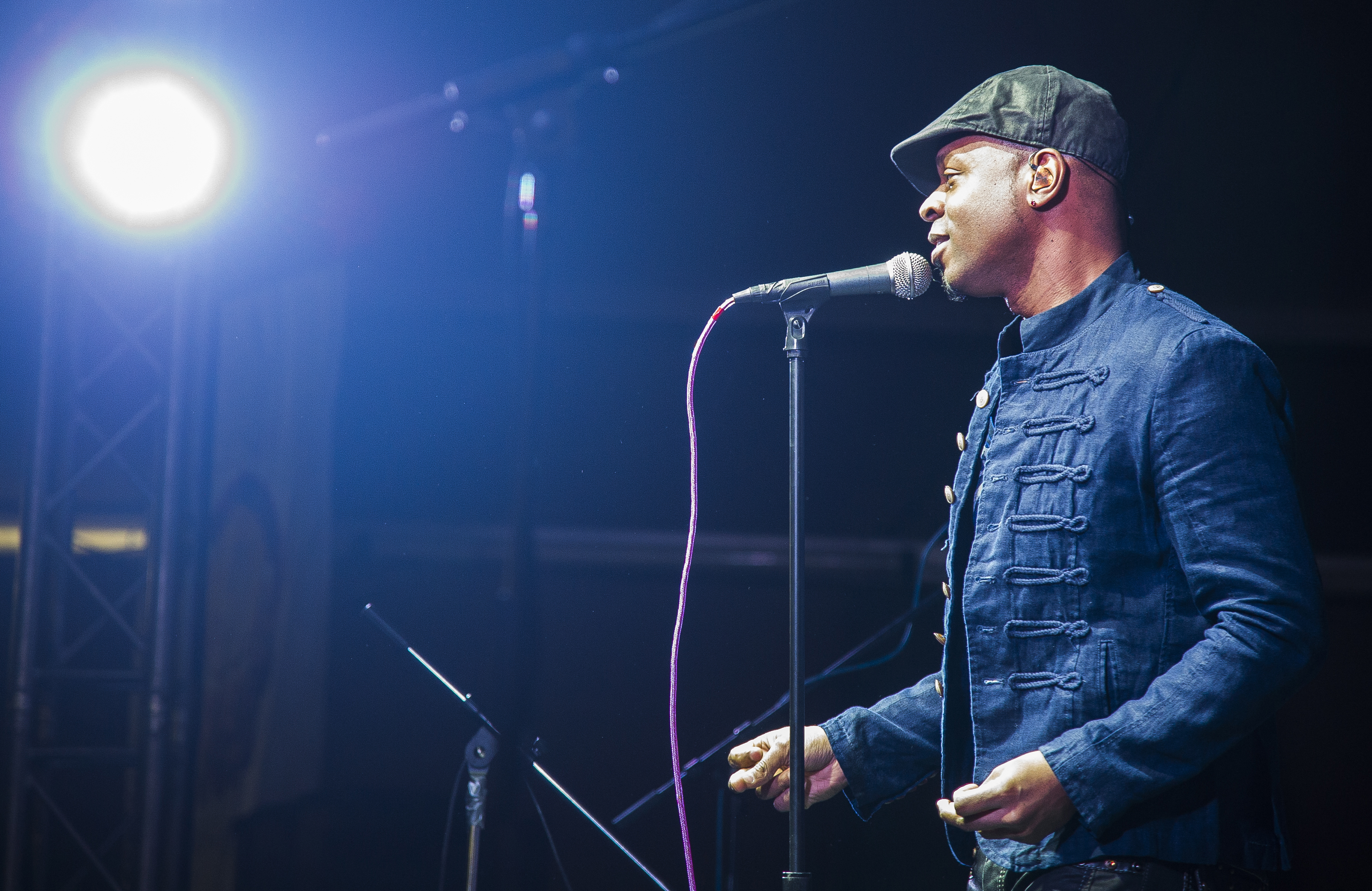 Stokley Williams, Mint Condition lead singer, performs at Transit Center at Manas, Kyrgyzstan, Feb. 18, 2014. Mint Condition made a stop at the Transit Center to perform for U.S. troops while on tour